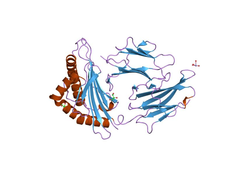 Cartoon representation of the molecular structure of protein registered with 1of2 code.